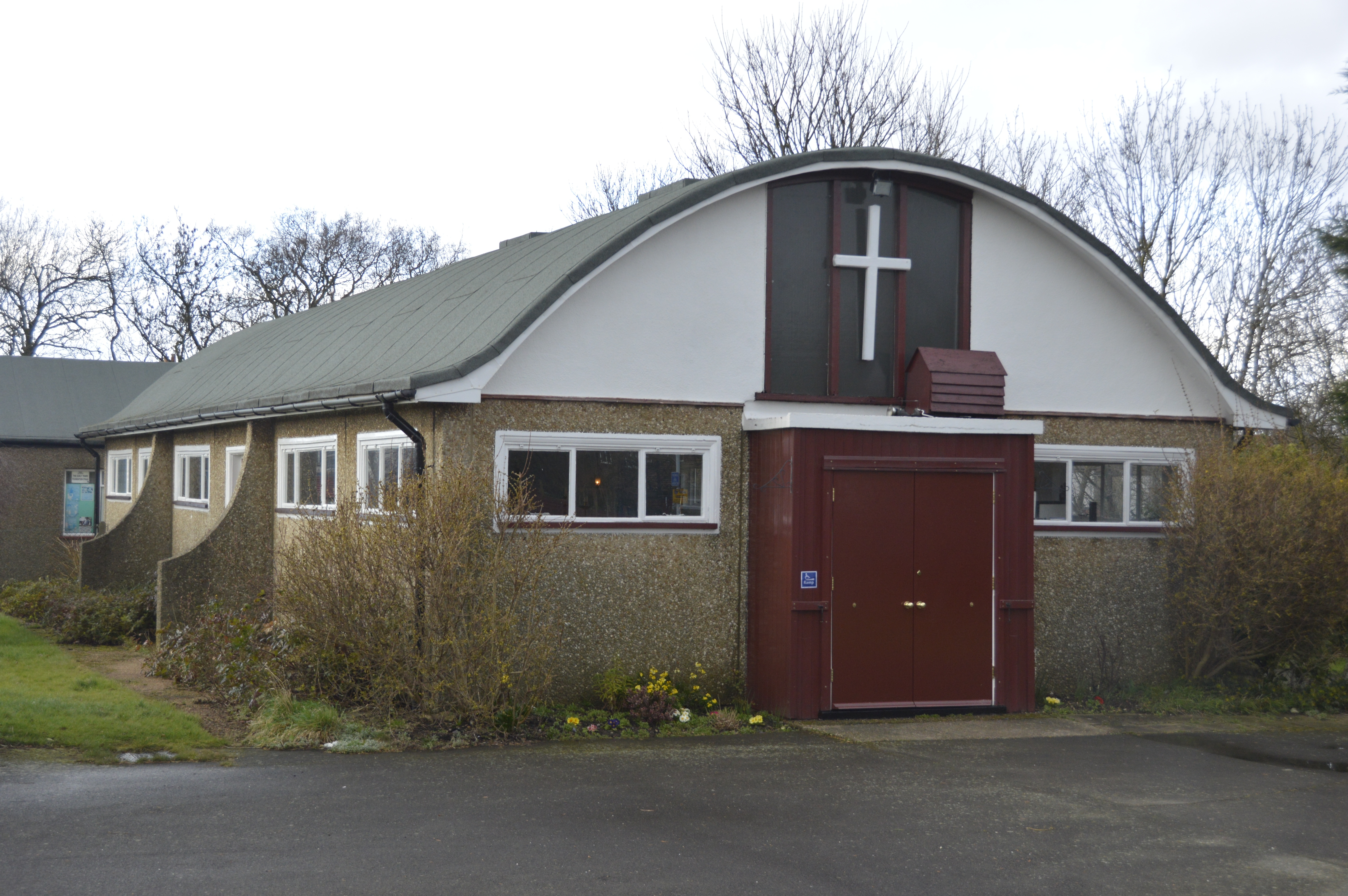 St Mark's church, Baudwin Rd Catford, part of the Excalibur estate of prefabricated houses built in south London just after WWII.